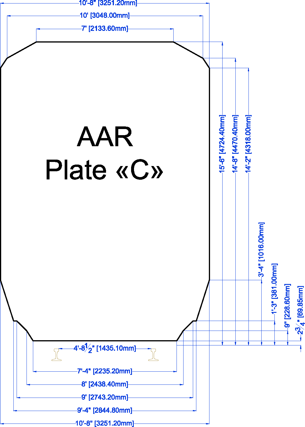 American Association of Railroads “Plate C” loading-gauge